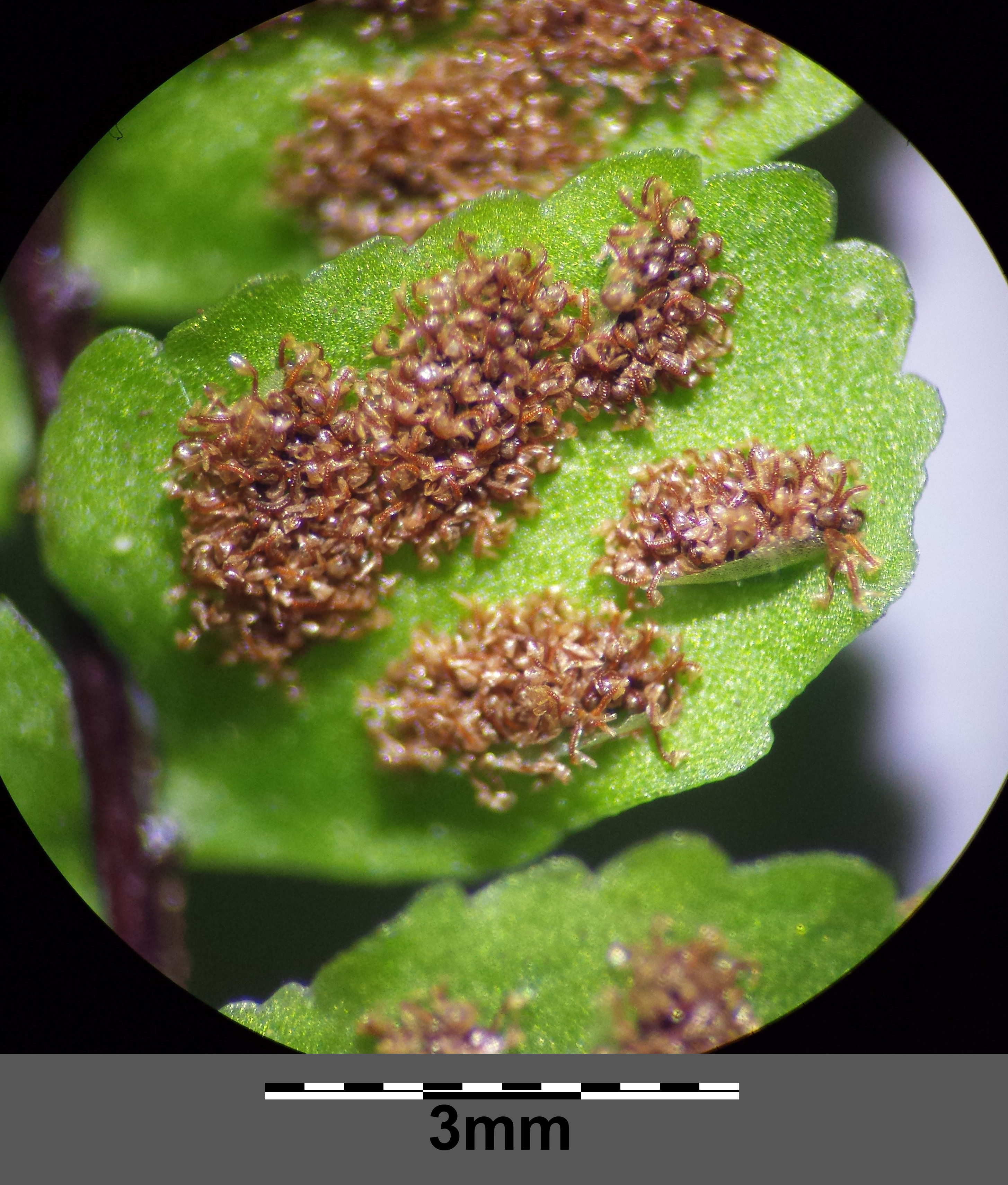 Bottom side of leaf with sori Taxonym: Asplenium trichomanes subsp. quadrivalens ss Fischer et al. EfÖLS 2008 ISBN 978-3-85474-187-9 Location: Karl-Seitz-Hof in Groß-Jedlersdorf, Vienna-Floridsdorf - ca. 160 m a.s.l. Habitat: light well